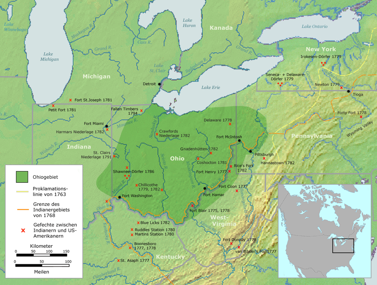 Map of the Ohio Country (German version)